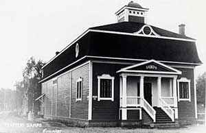 Image of old movie theatre from postcard